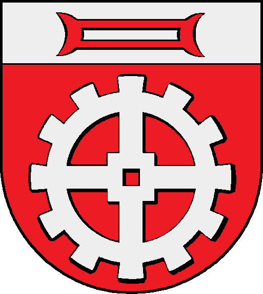 Coat of arms of Mölln Blasonierung: In Rot ein silbernes Mühlrad. Im silbernen Schildhaupt ein rotes Mühleisen.